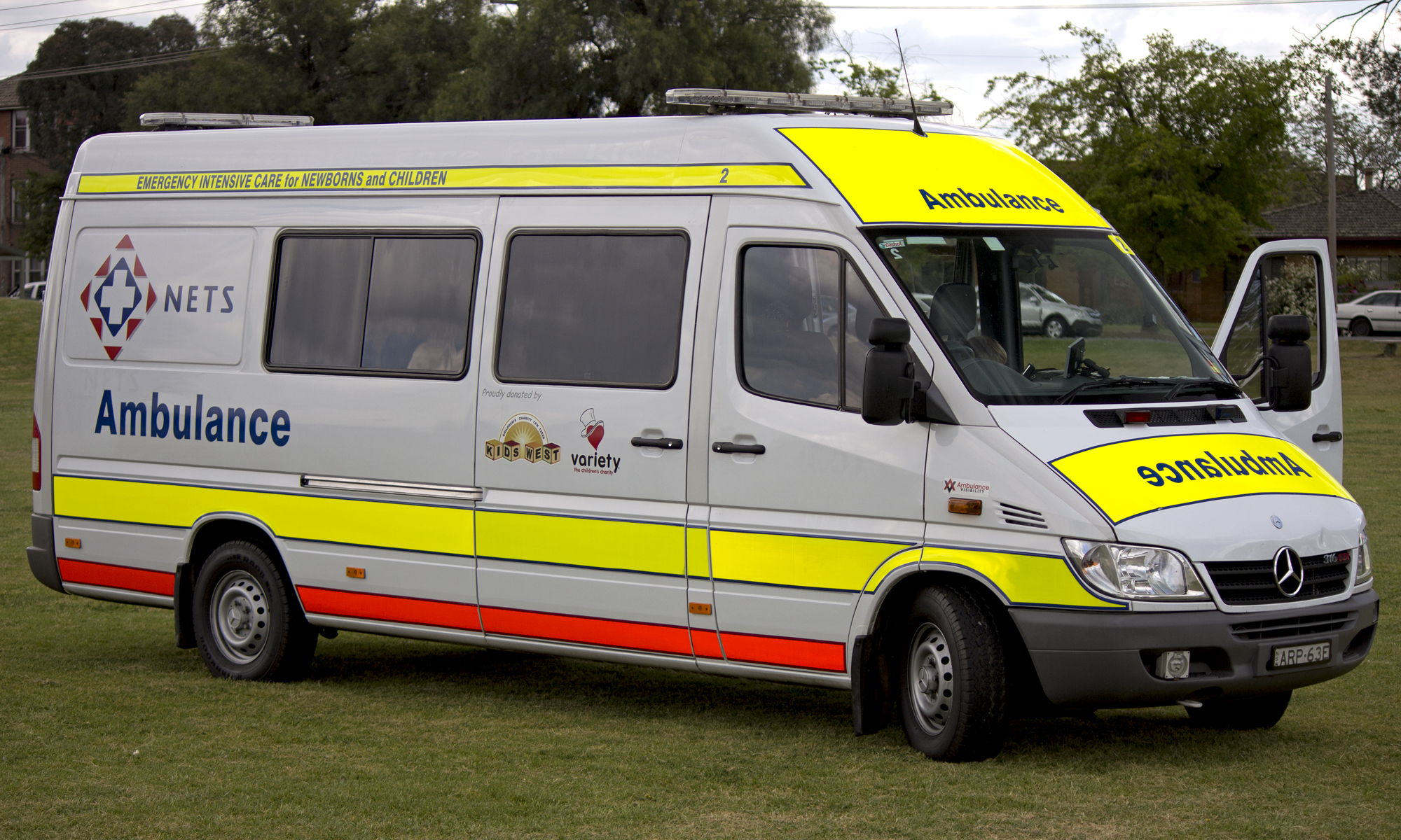 NETS Ambulance for Emergency Intensive Care for newborns and children at Bolton Park in Wagga Wagga, New South Wales